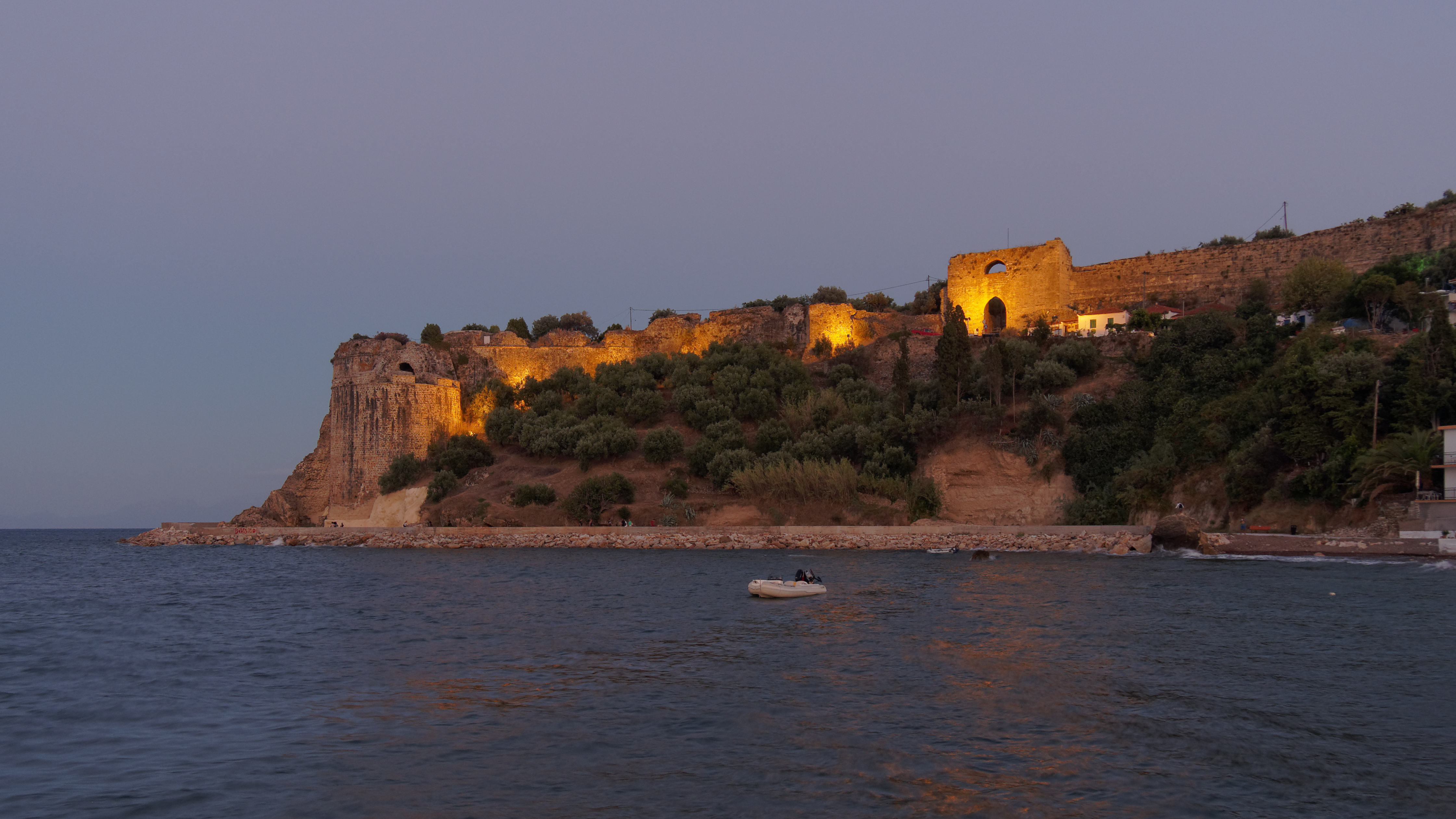 View of Koroni Castle from the harbour, at dusk.